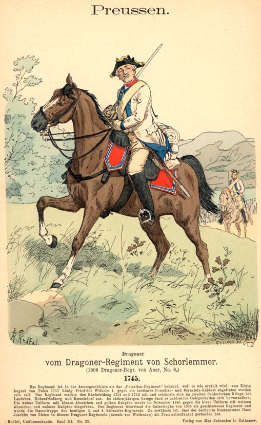 Preußen: Dragoner vom Dragoner-Regiment v. Schorlemmer. 1745